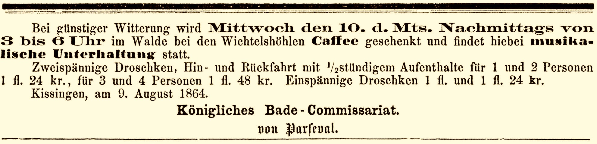 Advertisement from "Anzeigeblatt für Bad Kissingen" 10. August 1864